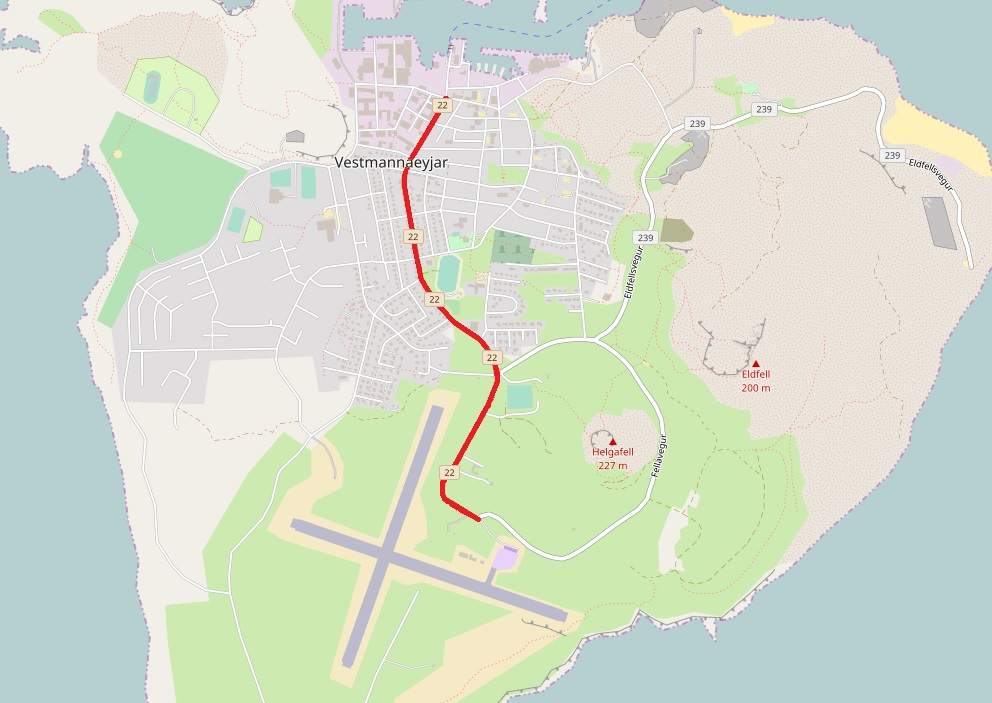 The red line shows Route 22 in Vestmannaeyjar.